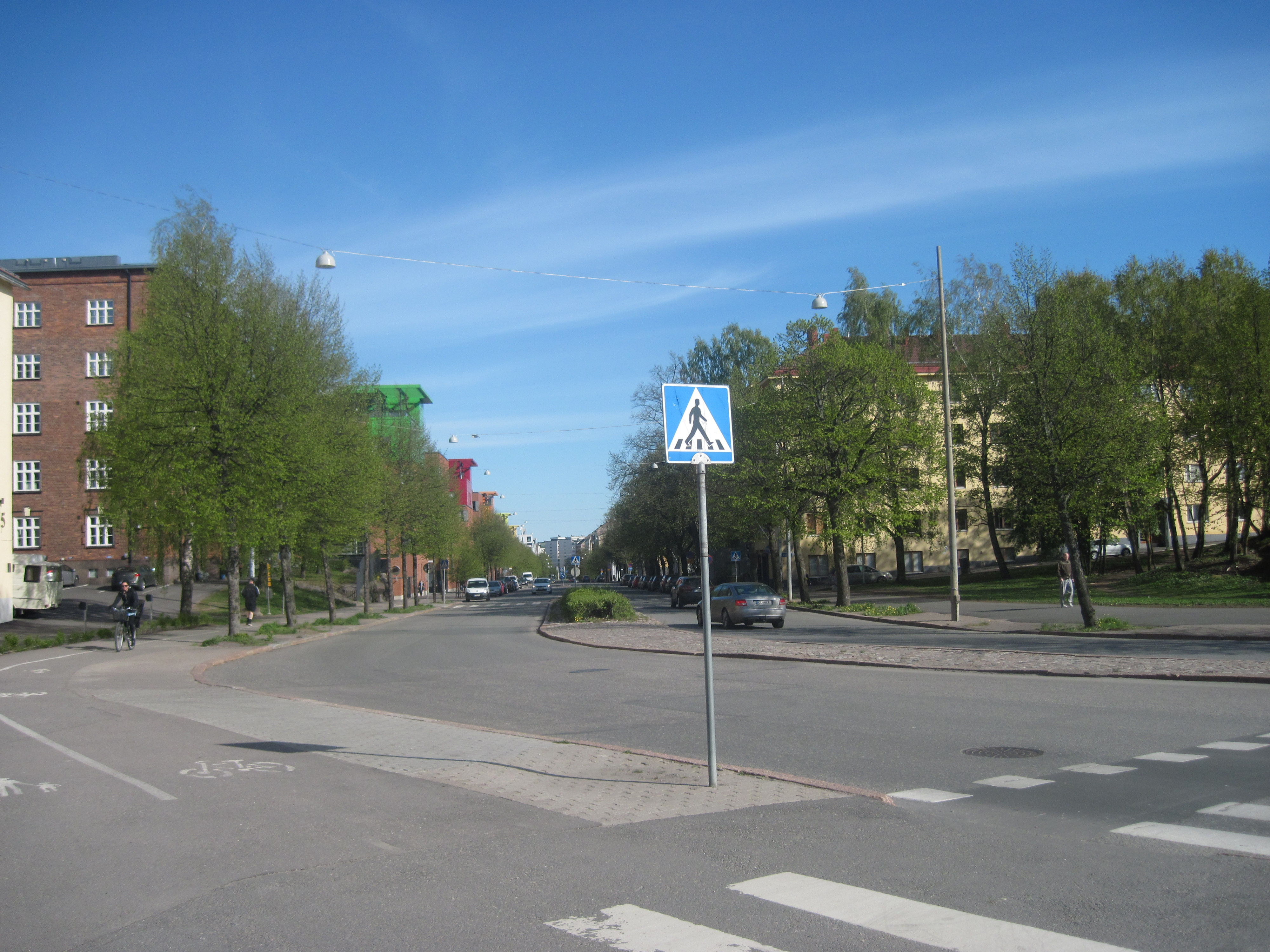 Aleksis Kiven katu in Helsinki, Finland